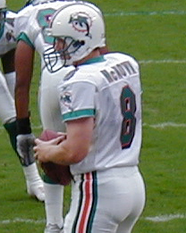 If used somewhere other than Wikipedia, Nelson, by name.